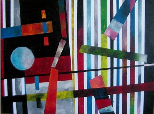 Fragmented geometry A N 9 by Jack Mancino